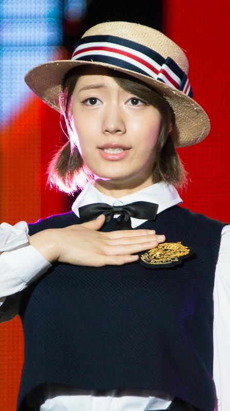 Ryu Hyo-young at Show Music Core Chuseok Special, 14 September 2013